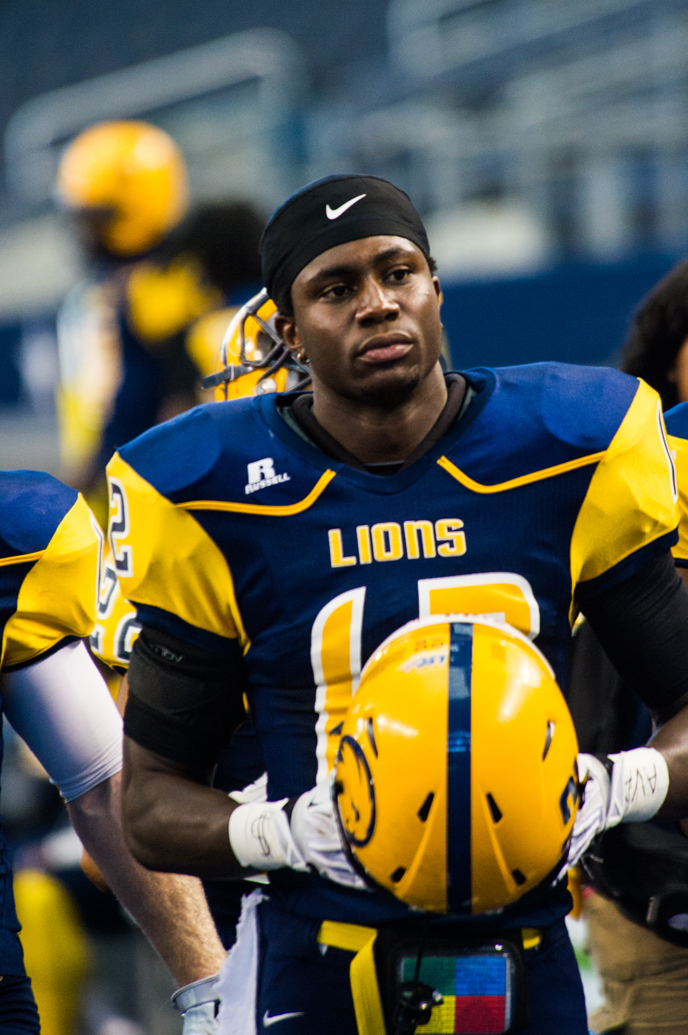 14453-LSC Football Festival-9970.jpg Scenes from the Texas A&M–Kingsville Javelinas vs. Texas A&M–Commerce Lions football game at AT&T Stadium in Arlington on September 20, 2014.